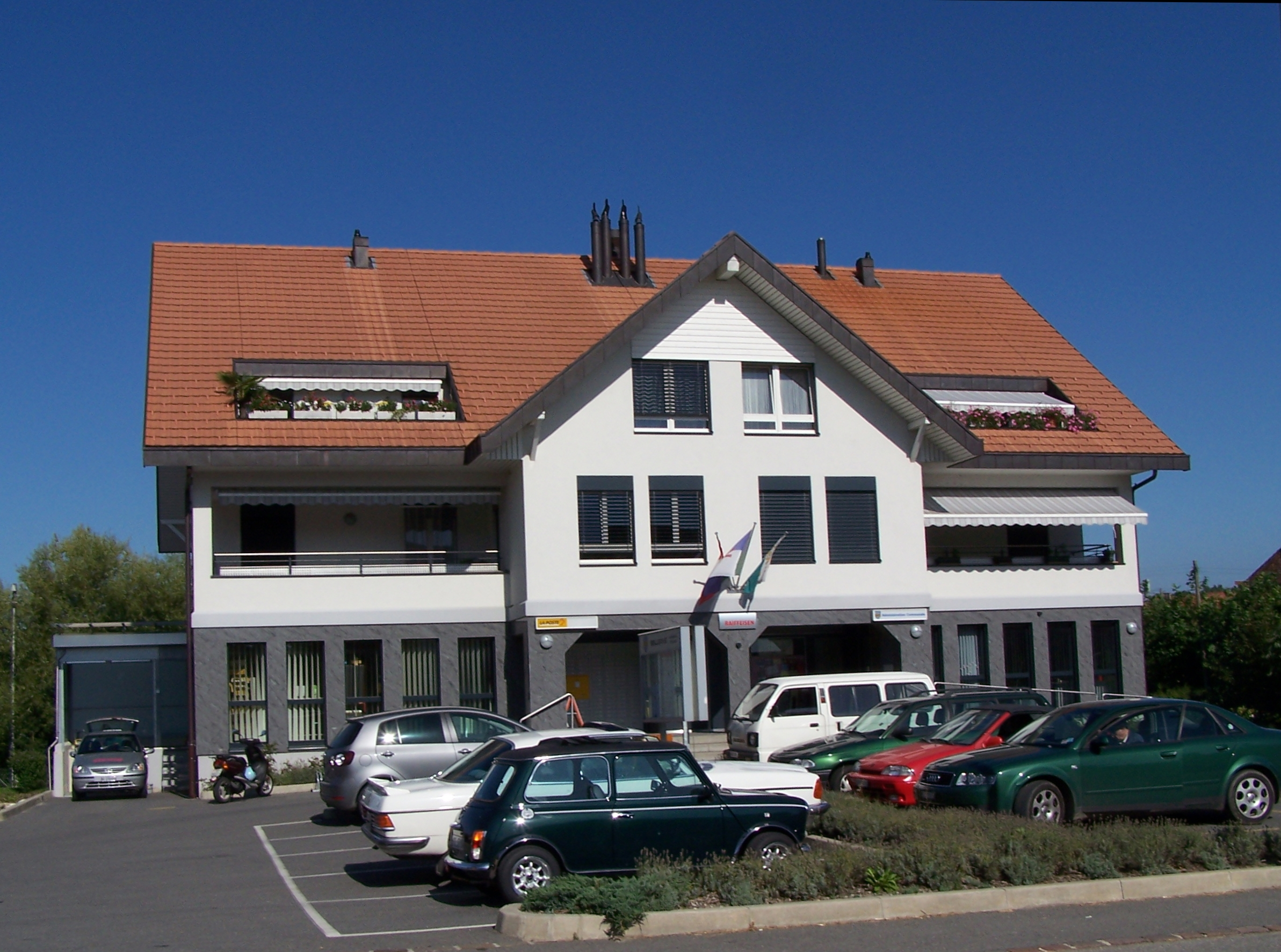 townhal of the commune of Bellerive, in the town of Salavaux